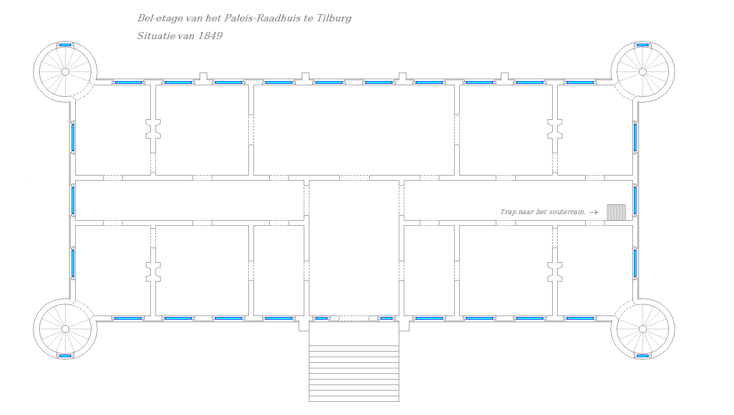 First floor of the palace-town house in Tilburg, the situation of 1849.